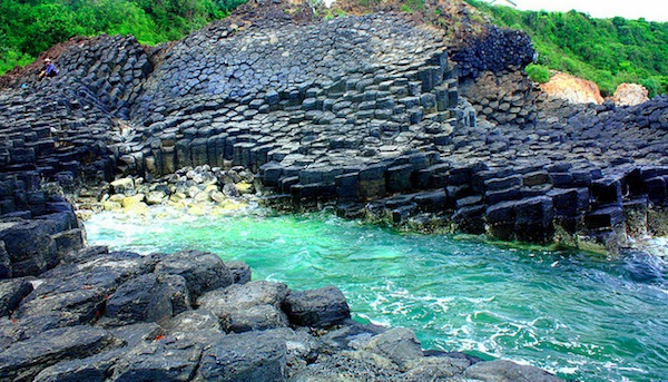 A photo at the Cliff of Stone Plates near Tuy Hoa city, Phu Yen province, Vietnam